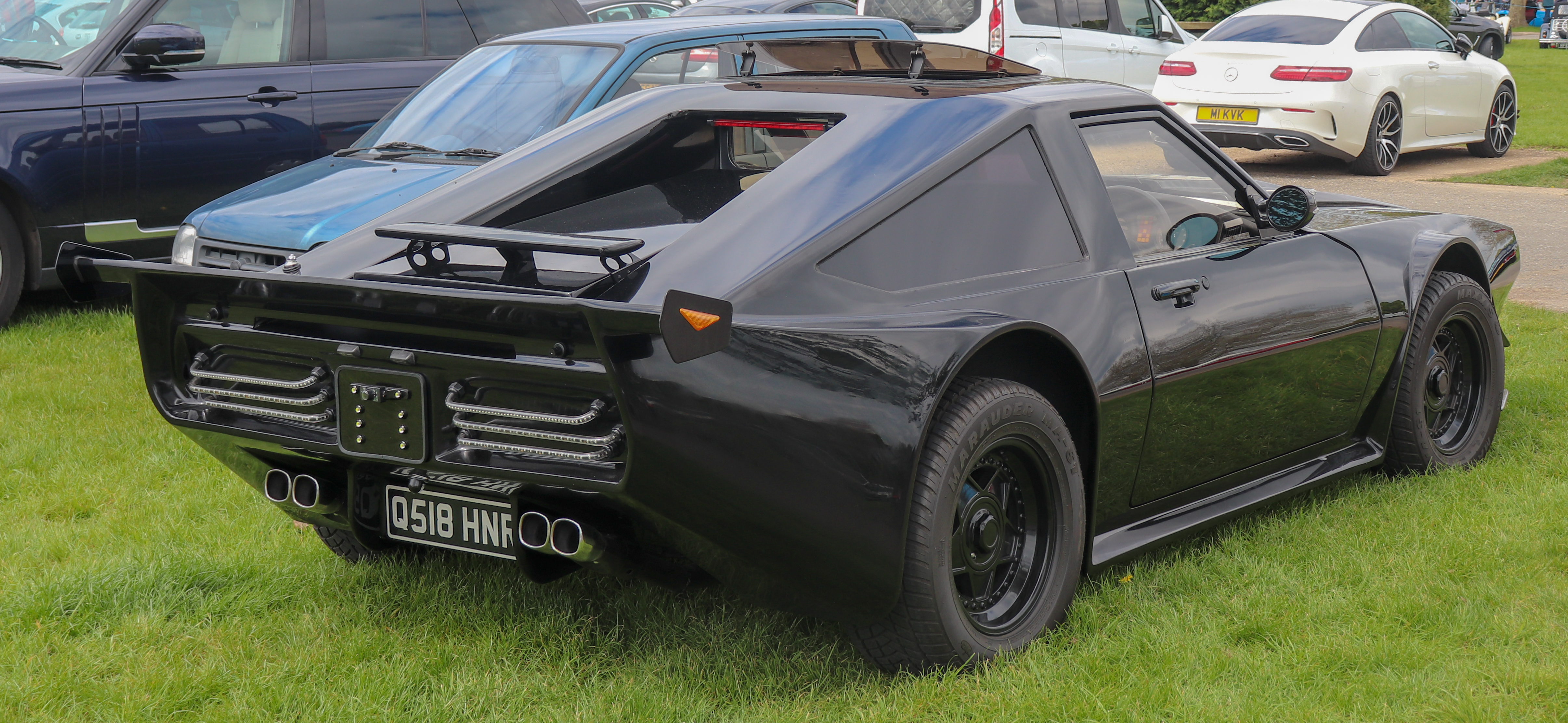 1991 Hensen M30 3.0 Rear Taken at the Stoneleigh National Kit Car Motor Show 2019